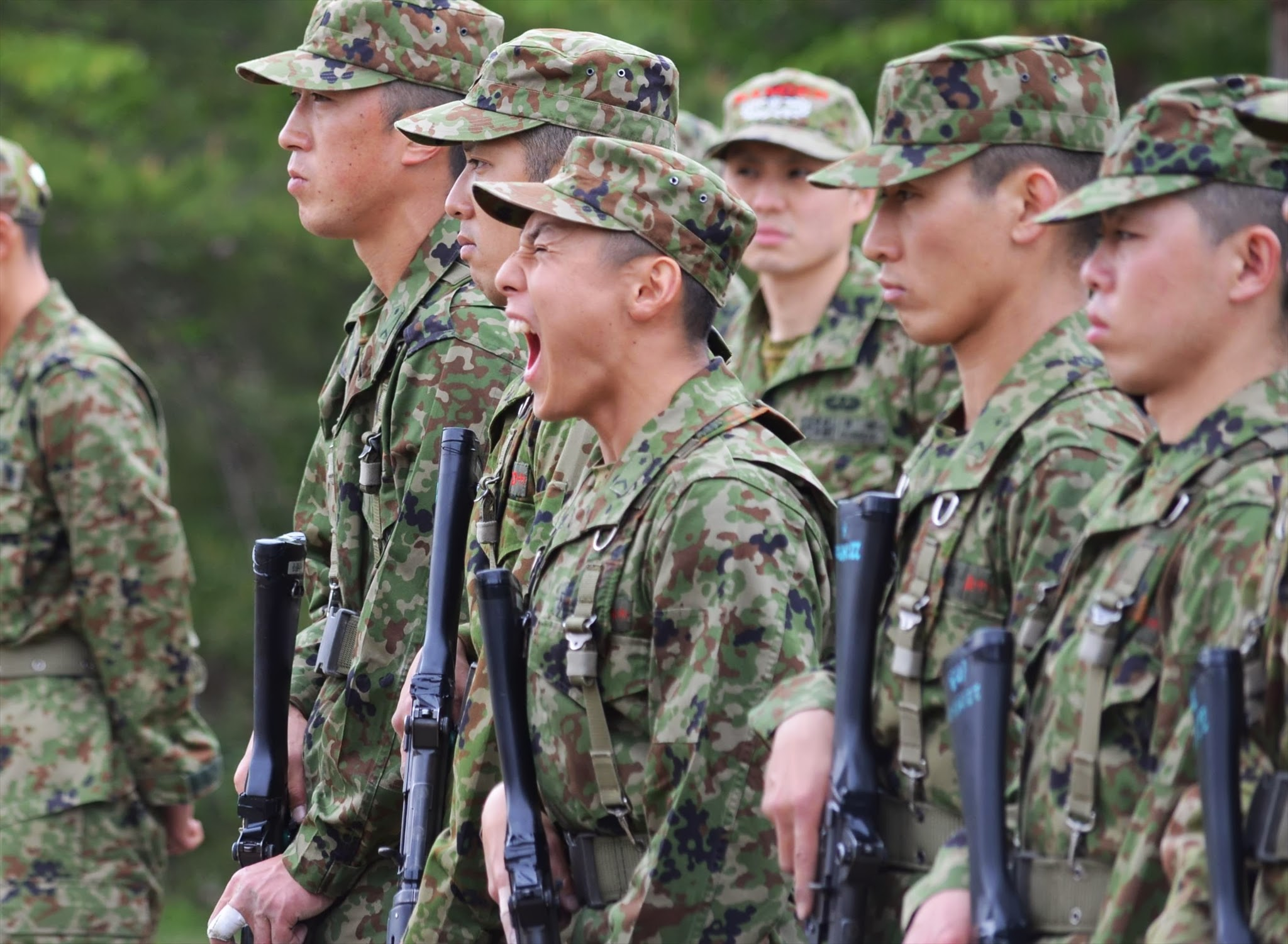 Title 「25.05~06 ２２ｉ・部隊レンジャー集合教育(25.5.22受信・木下曹長)気迫！」本部管理中隊島貫誠３曹.JPG Album 教育訓練等 レンジャー教育（第２２普通科連隊・多賀城）